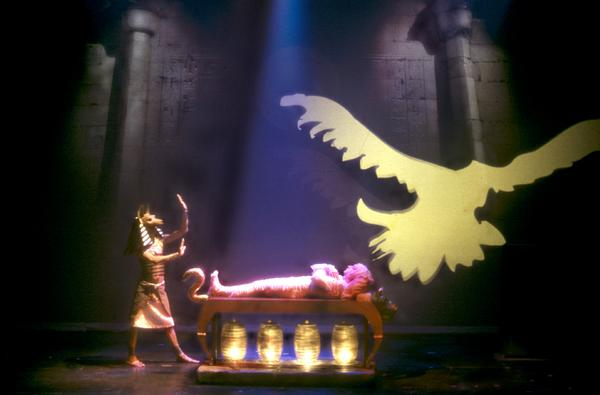 A production still from the opera "Book of the Dead (2nd Avenue)" by John Moran, 2000. Commissioned by Lincoln Center for the Performing Arts, presented by New York Shakespeare Festival / Public Theater.